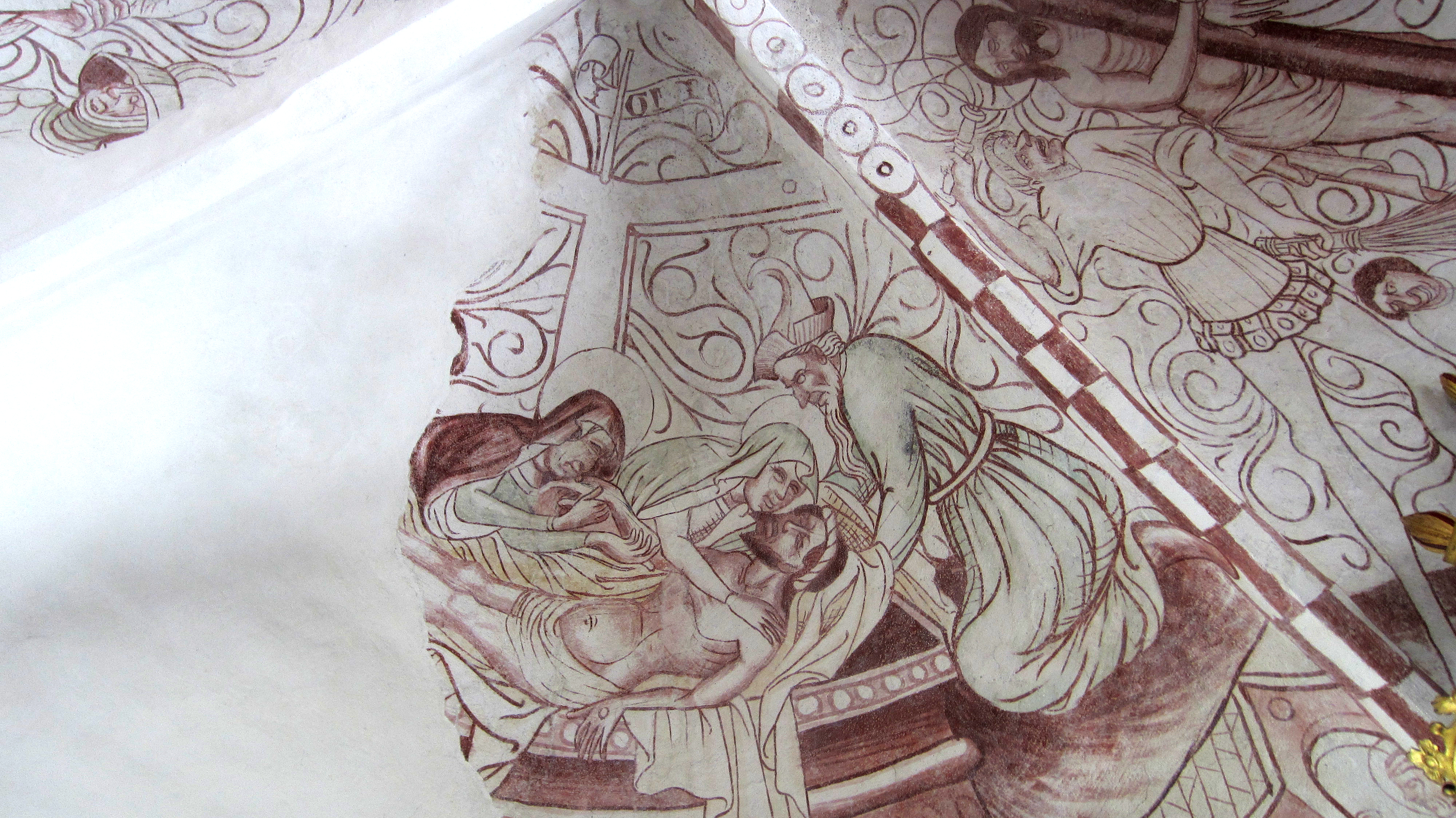 Wall paintings from about 1440 in Brönnestad church, Scania, Sweden.